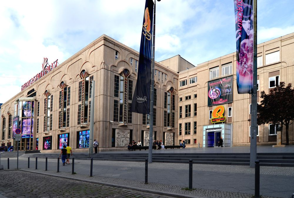 Theatre Friedrichstadtpalast in Berlin